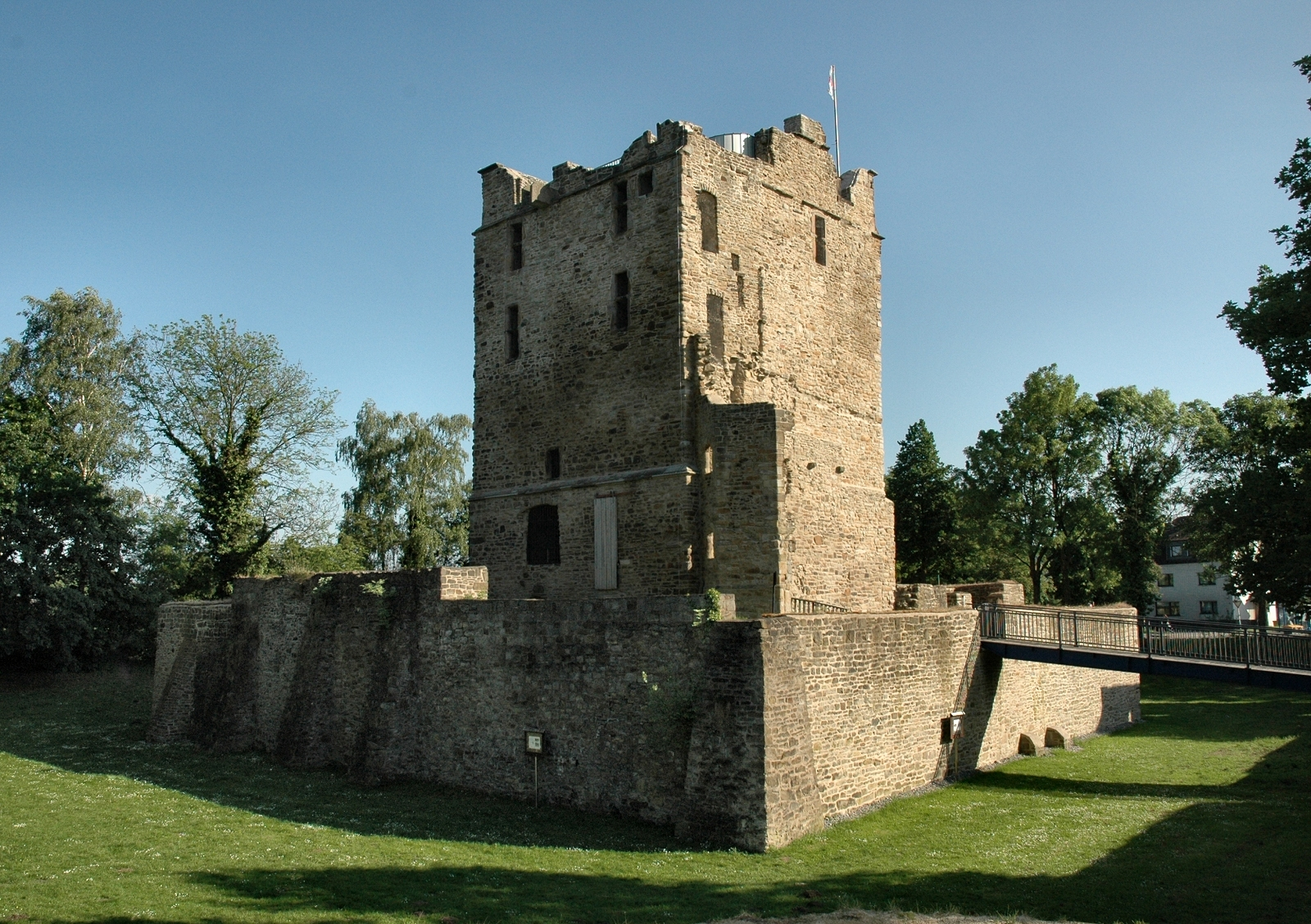 Donjon of Altendorf Castle, northern aspect